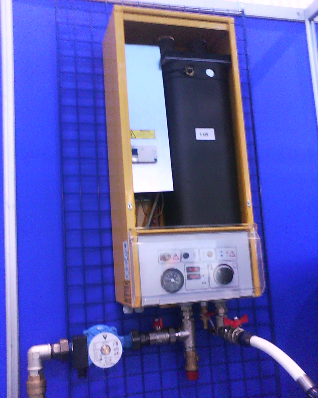 Domestic wall-mounted electric heating boiler WESPE (frontal cover removed). In real-like exhibition installation in Lenexpo.